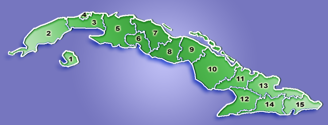 Location of Provinces of Cuba